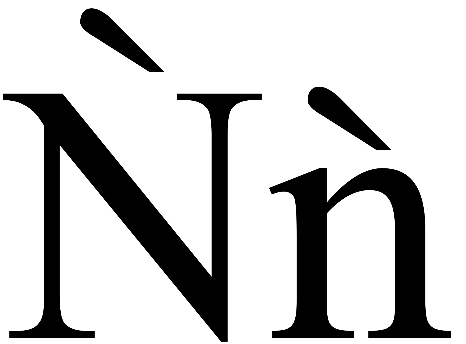 N with grave